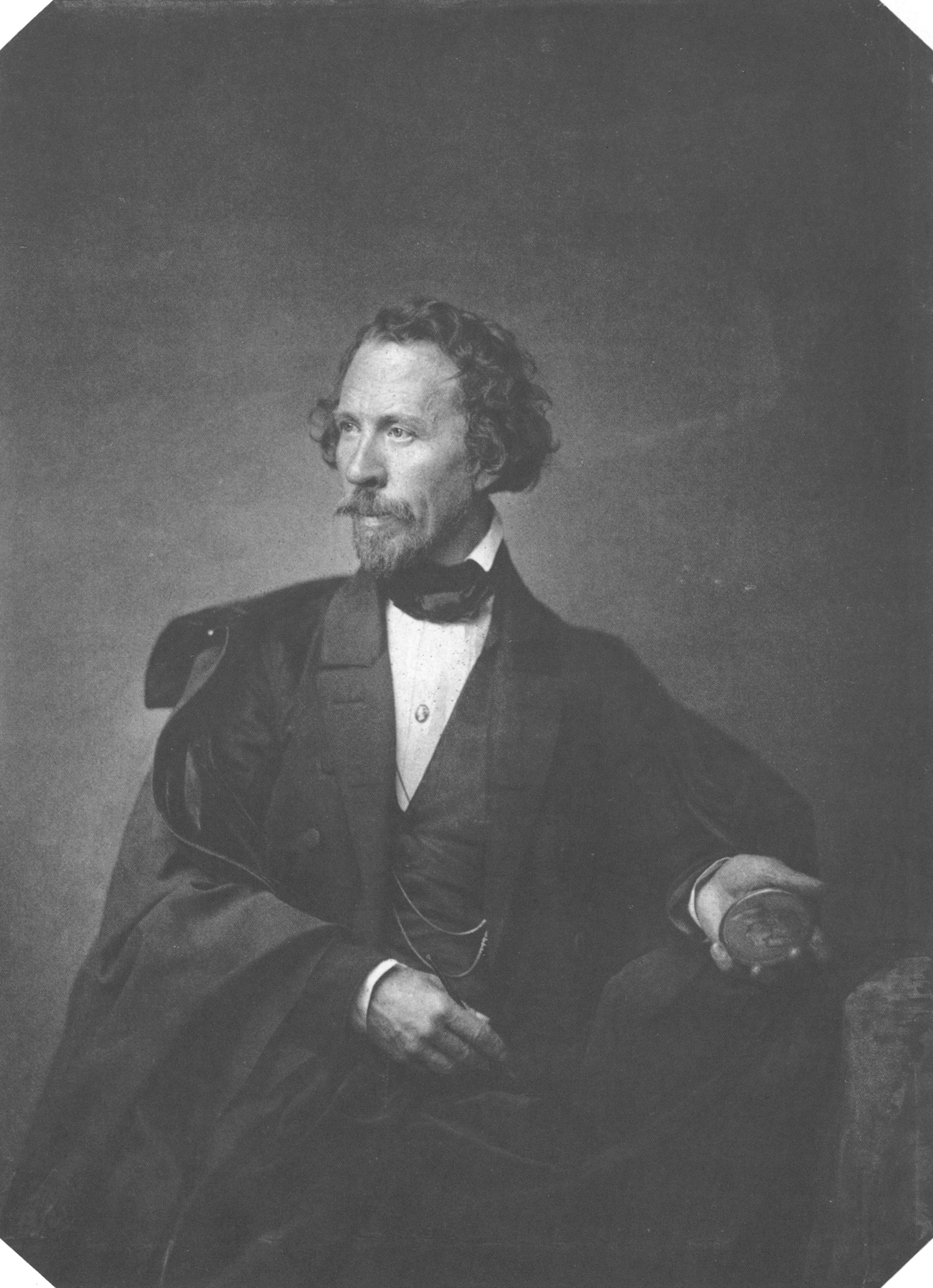 Photograph of Carl Friedrich Voigt (1800-1874)